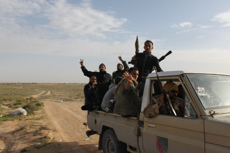 Armed rebels return from the brushland outside the key oil town of Brega after driving away the last of the pro-Gaddafi forces who assaulted the airport, refinery and university early in the morning.